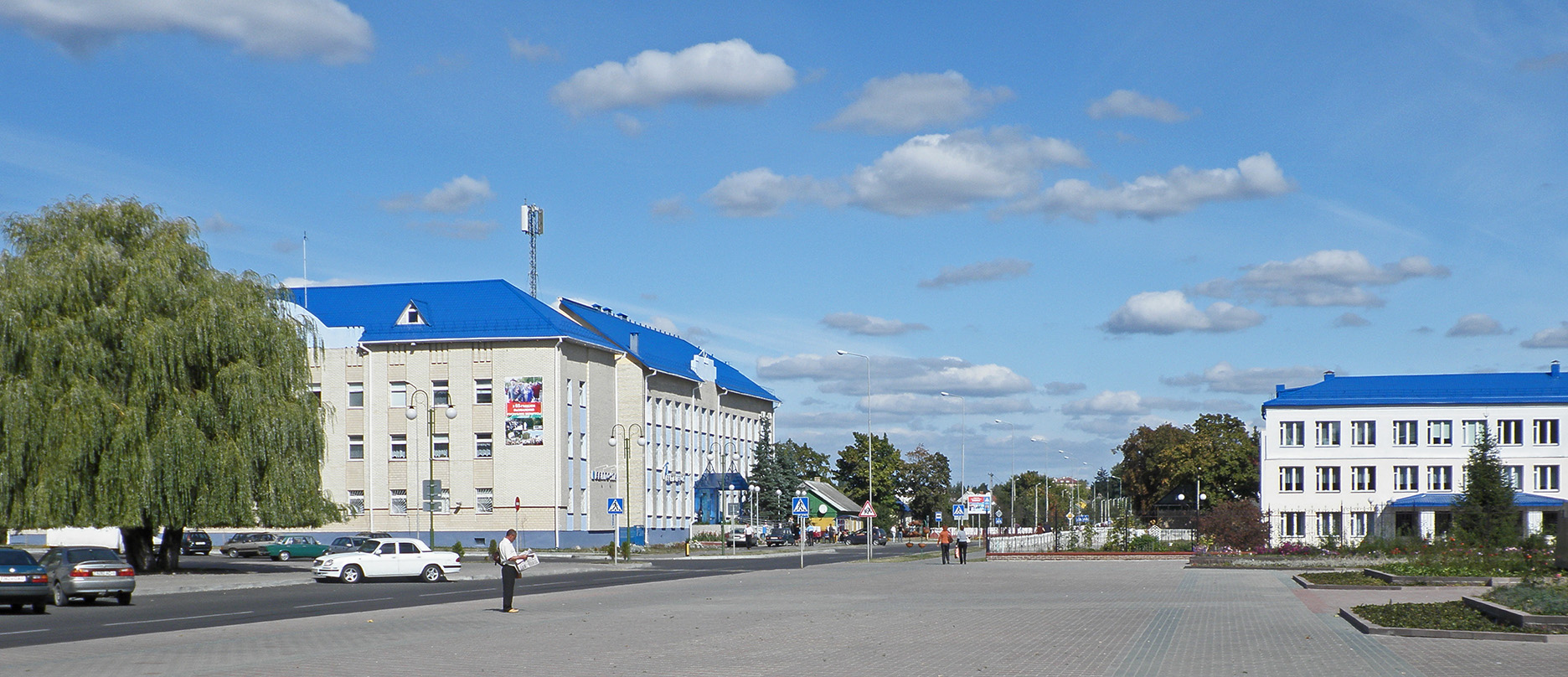 Stolin, Belarus the central street